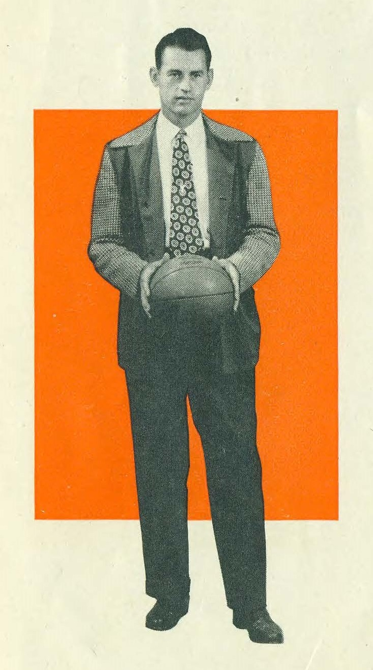 American basketball coach Bud Browning with the Phillips 66ers c. 1946